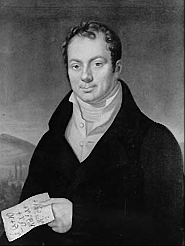 Portrait of August Leopold Crelle, german mathematician and engineer.